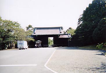 Inui-Mon